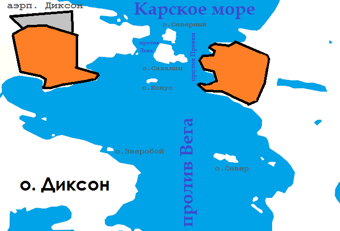 Map of Dikson (Russia)